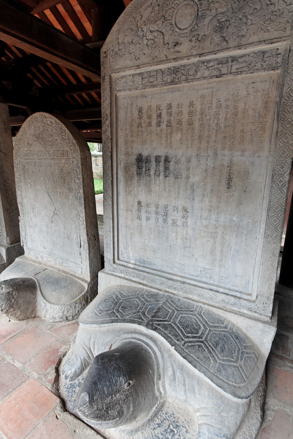 Văn Miếu (文廟) or Temple of Literature, Hanoi, Vietnam. Steles with names of those succseful at the imperial exams, supported by a giant tortoise-like Bixi.